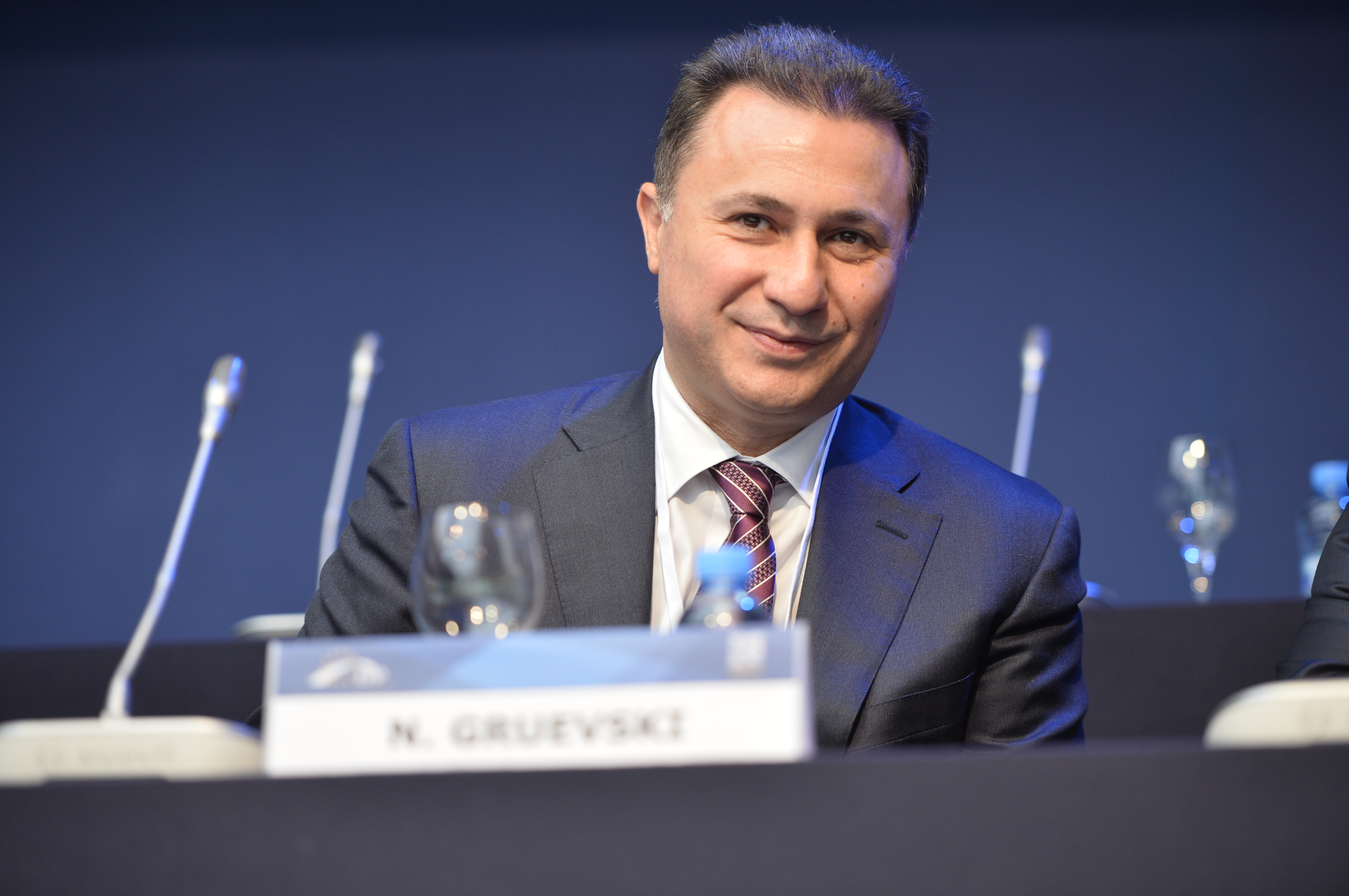 EPP Congress Madrid - 21 October